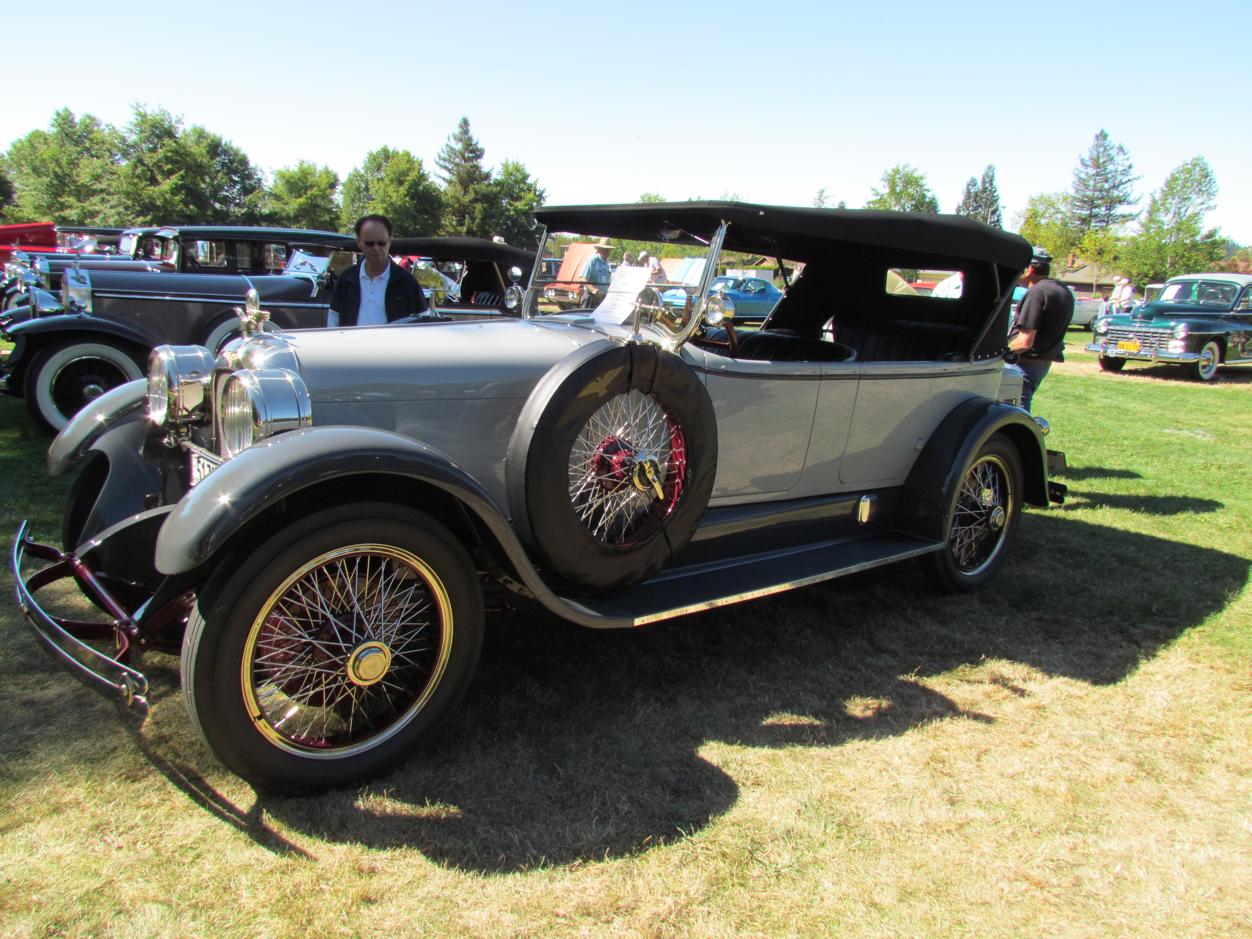 1922 Duesenberg Santa Rosa, California, United States